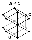 Hexagonal crystal structure.